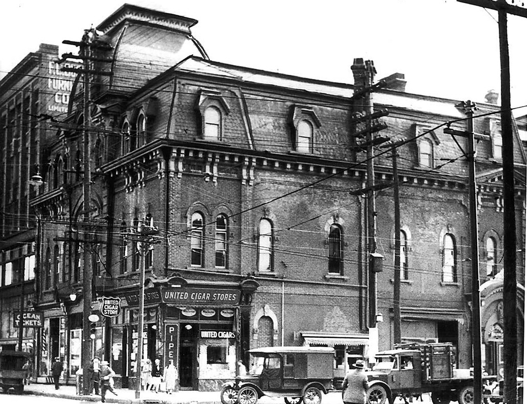 Photo of what is now a CB2 store at Queen and Bathurst, Toronto